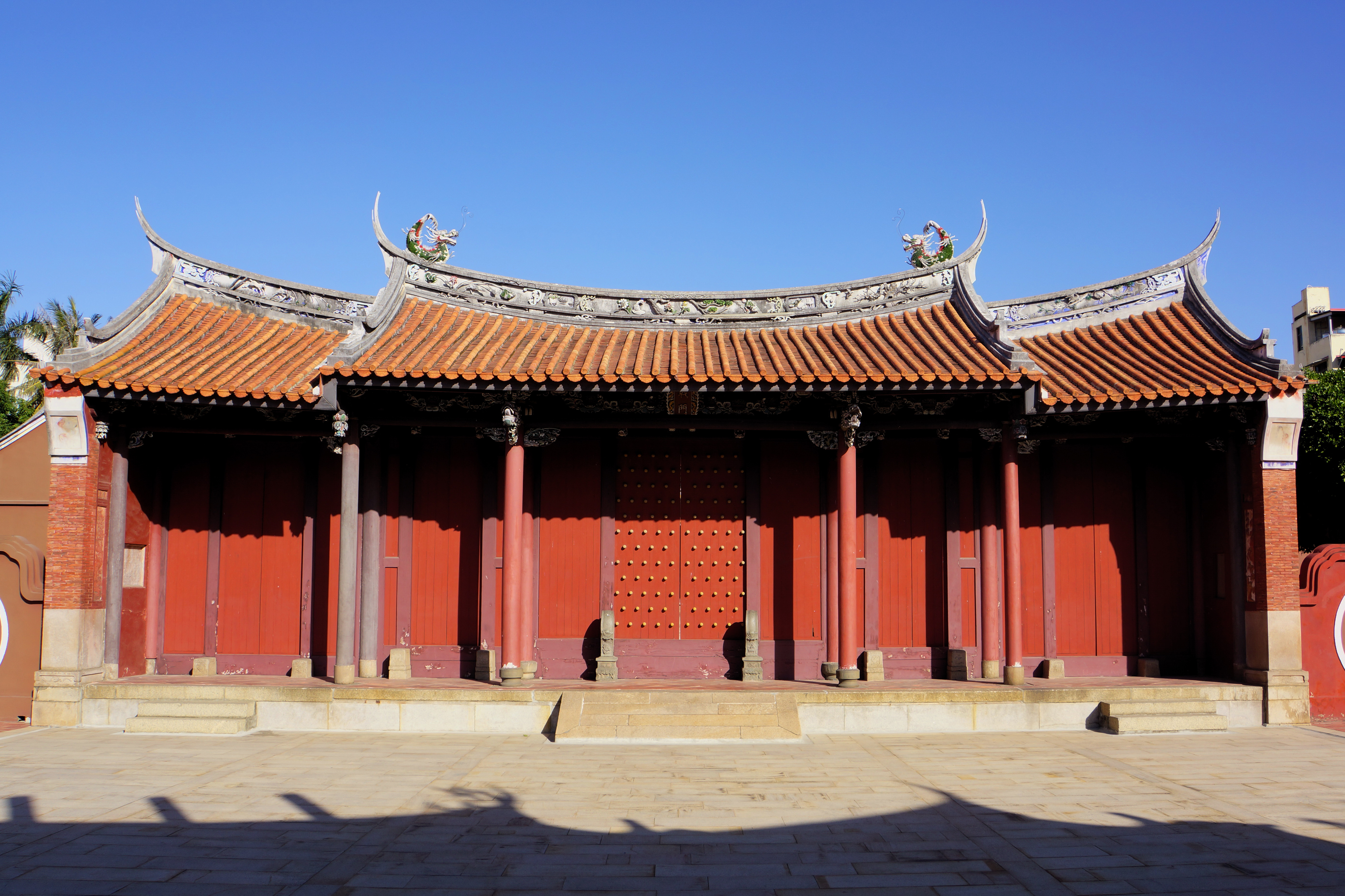 彰化孔廟戟門 Ji Gate of Zhanghua Confucius Temple